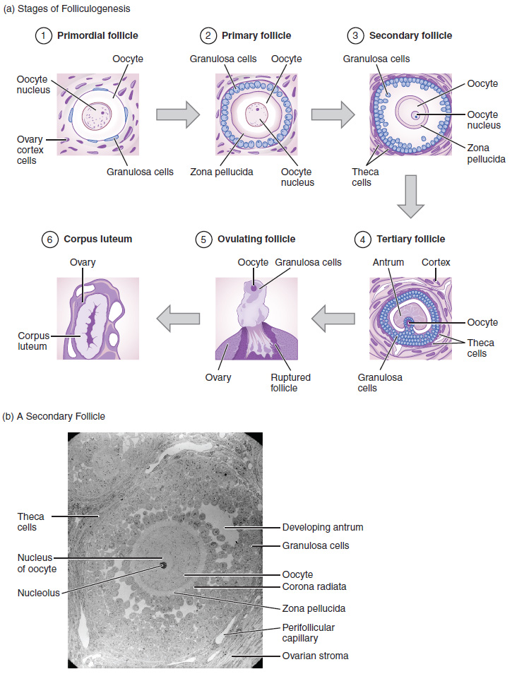 (a) The maturation of a follicle is shown in a clockwise direction proceeding from the primordial follicles. FSH stimulates the growth of a tertiary follicle, and LH stimulates the production of estrogen by granulosa and theca cells. Once the follicle is mature, it ruptures and releases the oocyte. Cells remaining in the follicle then develop into the corpus luteum. (b) In this electron micrograph of a secondary follicle, the oocyte, theca cells (thecae folliculi), and developing antrum are clearly visible. EM × 1100. (Micrograph provided by the Regents of University of Michigan Medical School © 2012)